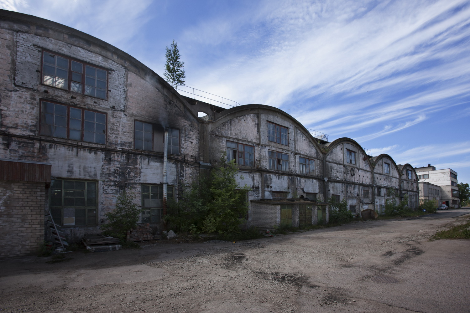 Vaade 1913. aastal ehitatud ja tänaseks muinsuskaitse all olevatele angaaridele